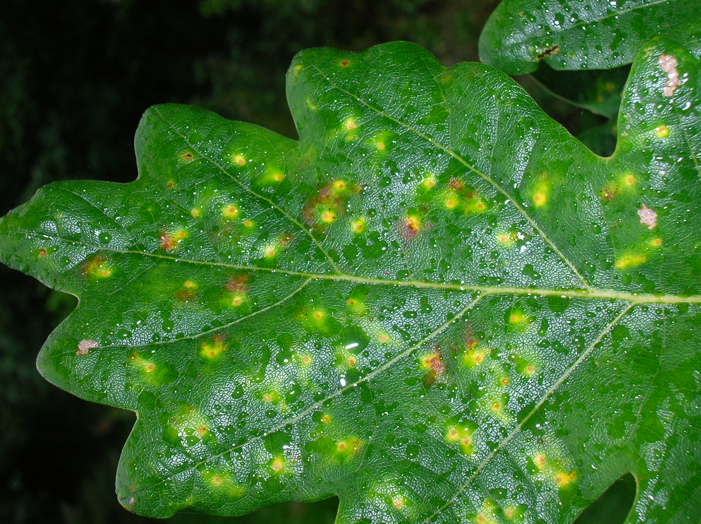 Neuroterus quercusbaccarum, Common spangle gall, from upper leaf surface. Quercus robur. Eglinton, Ayrshire, Scotland.